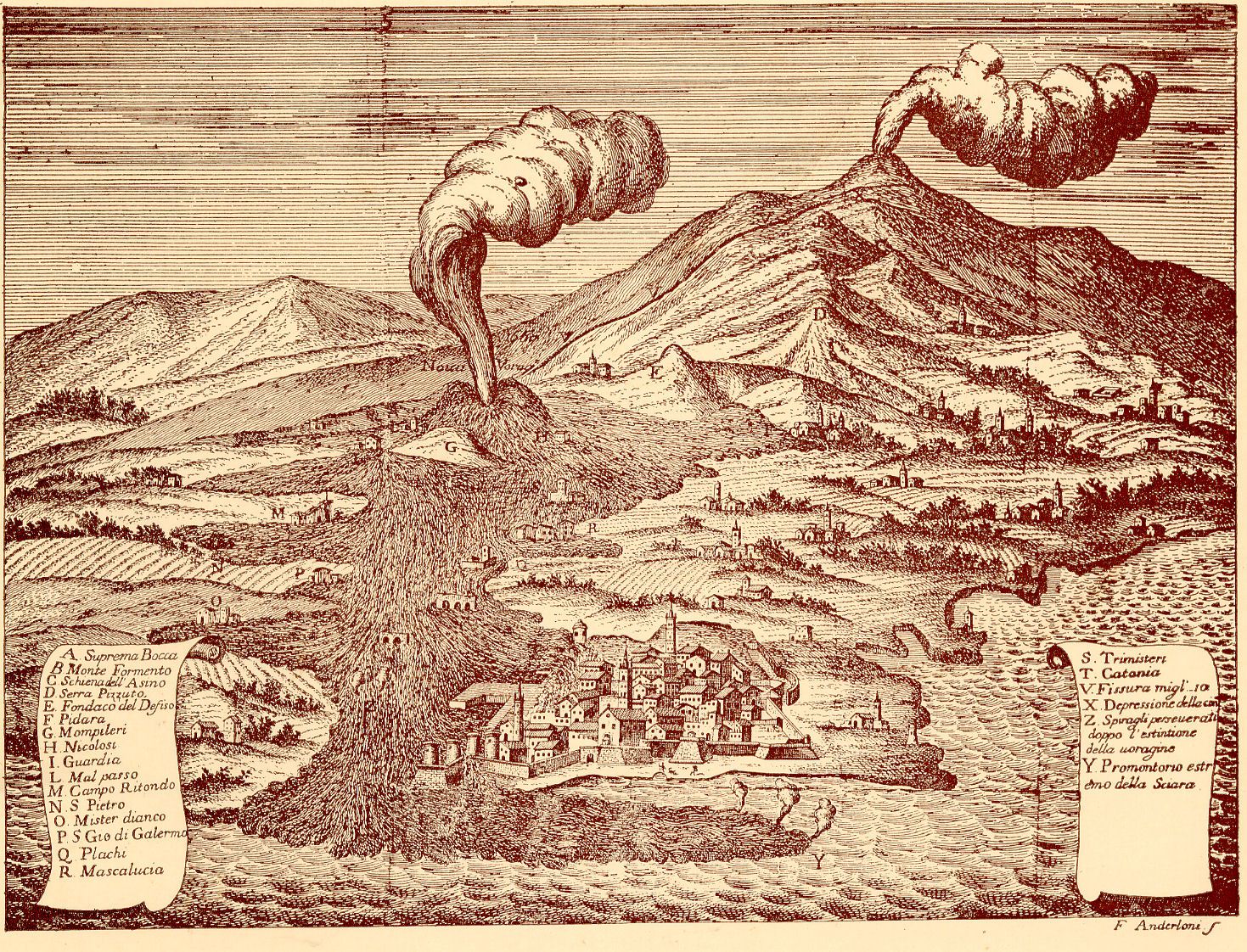 "Mt. Etna and Catania. Engraving by Faustino Anderloni (1766-1847)"